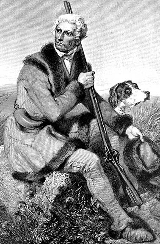 Engraving of Daniel Boone hunting in Missouri from the original painting by Chappel in the possession of the publishers Johnson, Fry & Co. Publishers, New York. Entered according to act of congress AD 1861 by Johnson, Fry & Co. in the clerks office of the district court of the southern district of New York